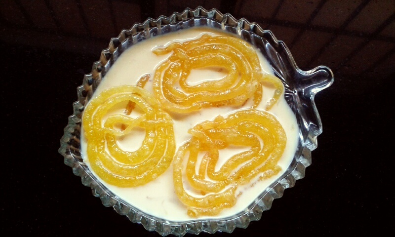 crispy jalebis dipped in thick rabdi.. photo taken with my 5 m.p. samsung mobile phone camera